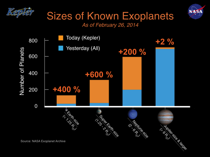 SIZES OF KNOWN EXOPLANETS - HISTOGRAM - February 26, 2014 The histogram shows the number of planets by size for all known exoplanets. The blue bars on the histogram represents all the exoplanets known, by size, before the Kepler Planet Bonanza announcement on Feb. 26, 2014. The gold bars on the histogram represent Kepler's newly-verified planets.